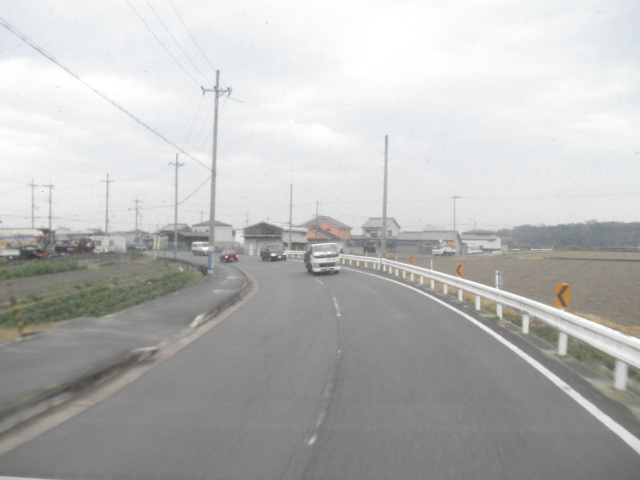 Hiranotown Nakatsu Nishi-ku Kobecity Hyogopref Hyogoprefectural road 377 Nomura Akashi line